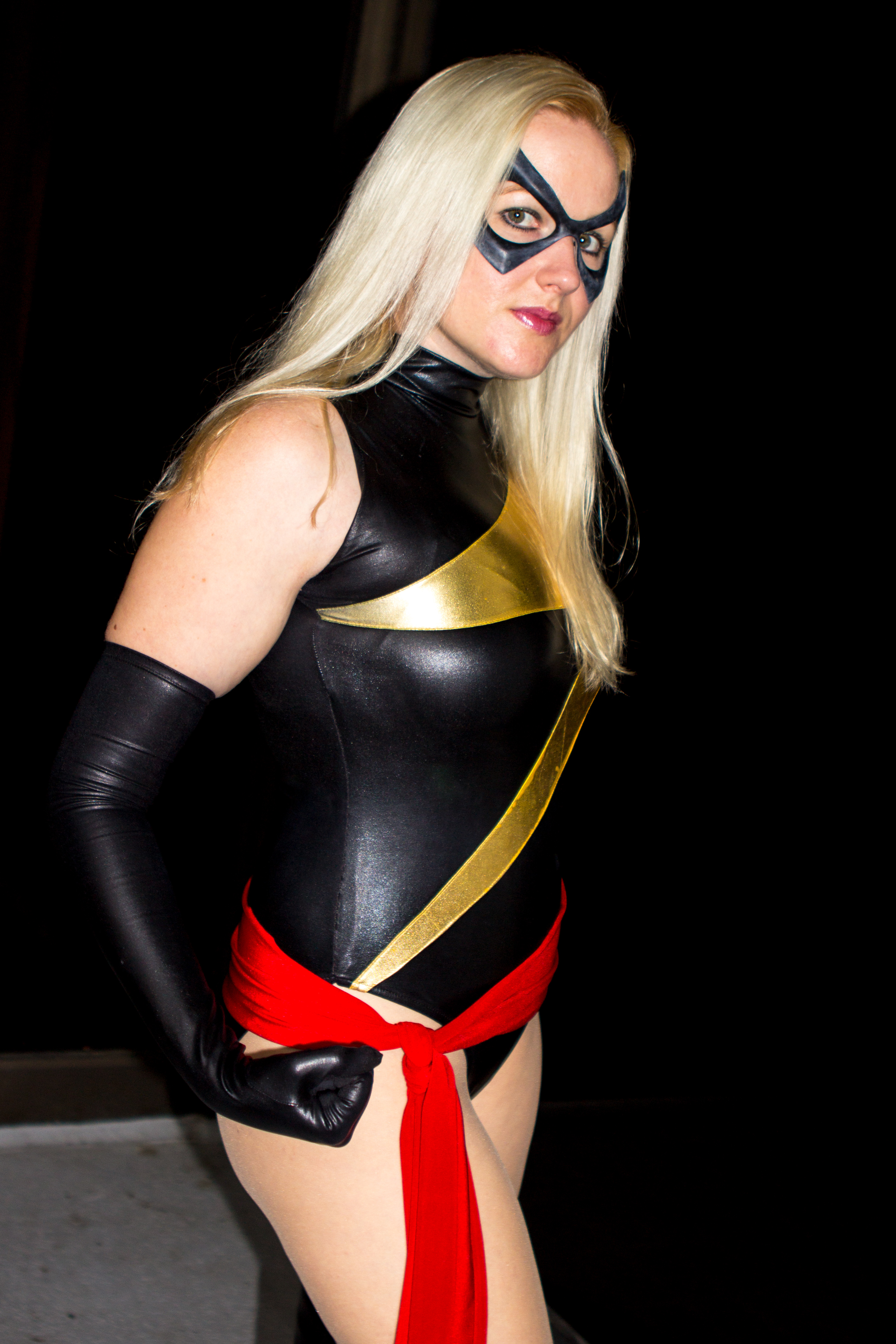 Dragon*Con 2013 Cosplay at Dragon*Con 2013.